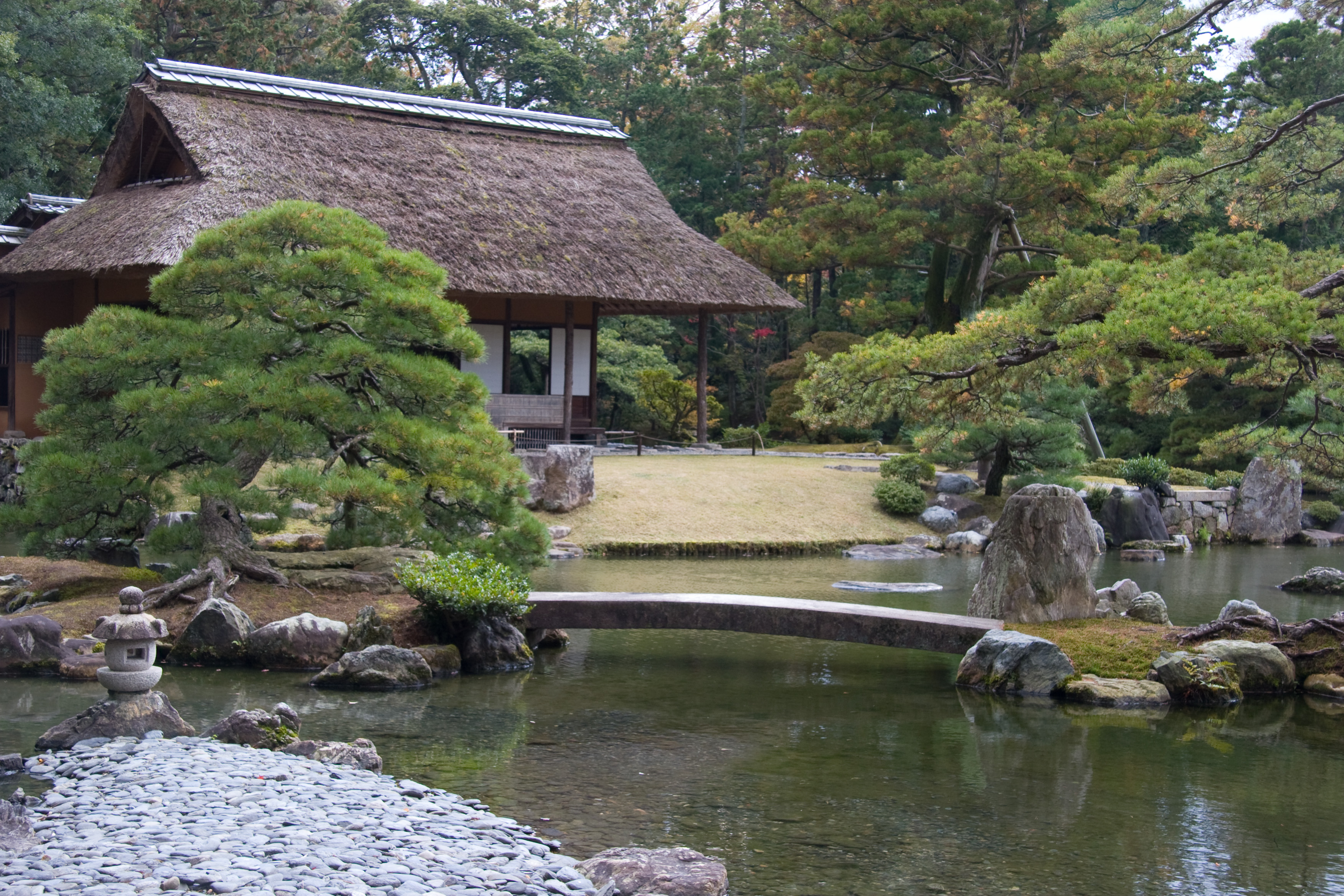 Katsura Rikyu